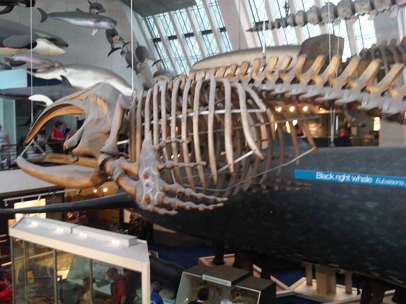 North Atlantic right whale (Eubalaena glacialis) skeleton at the Natural History Museum in London, England.